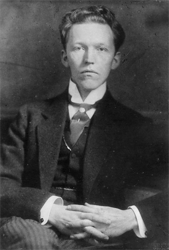 Portrait of Botho Sigwart (Philipp, August), Graf zu Eulenburg. German composer, pianist and conductor.